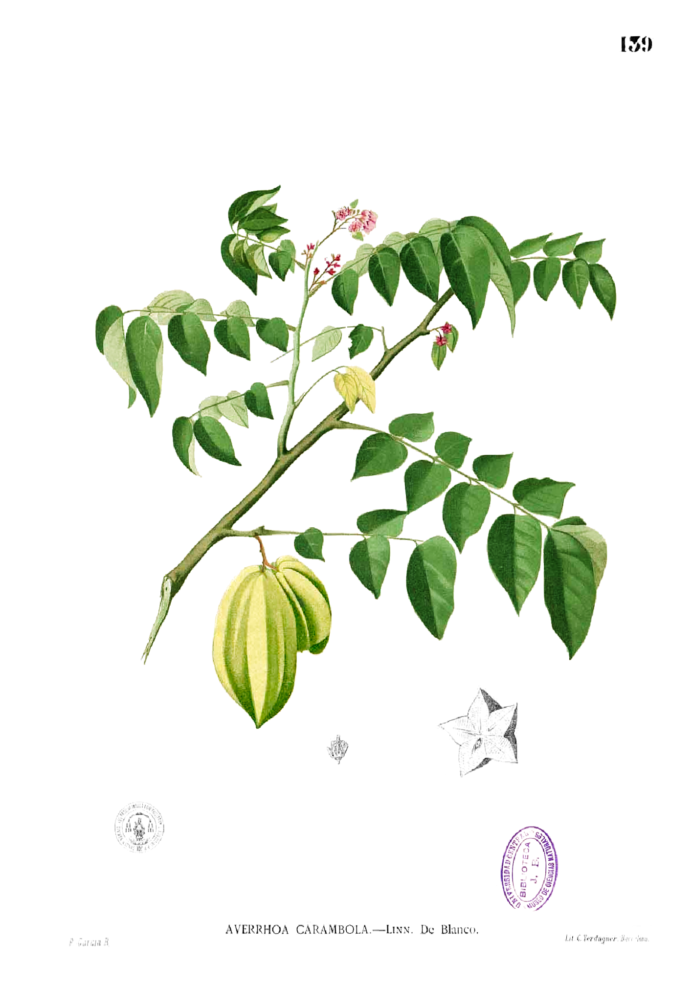 Plate from book